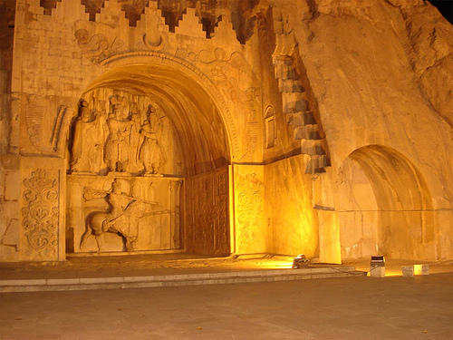 Taq-e Bostan, Kermanshah Province of Iran